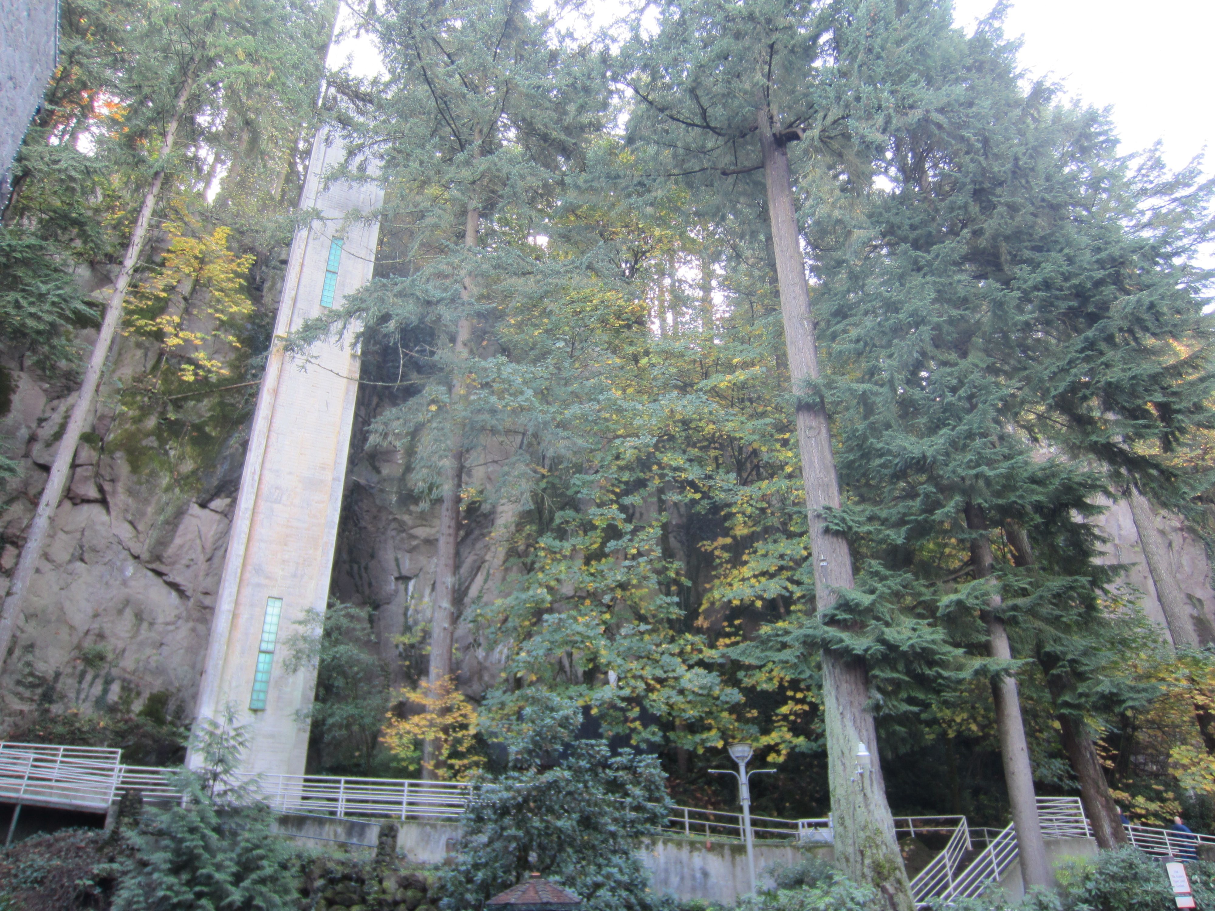 The Grotto, Portland, Oregon (2014)